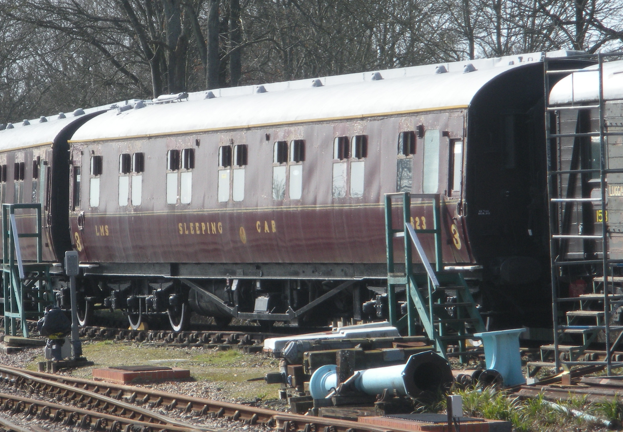 LMS sleeping coach 623 at Horsted Keynes Station on the Bluebell Railway. This coach is used for volunteer sleeping accommodation.